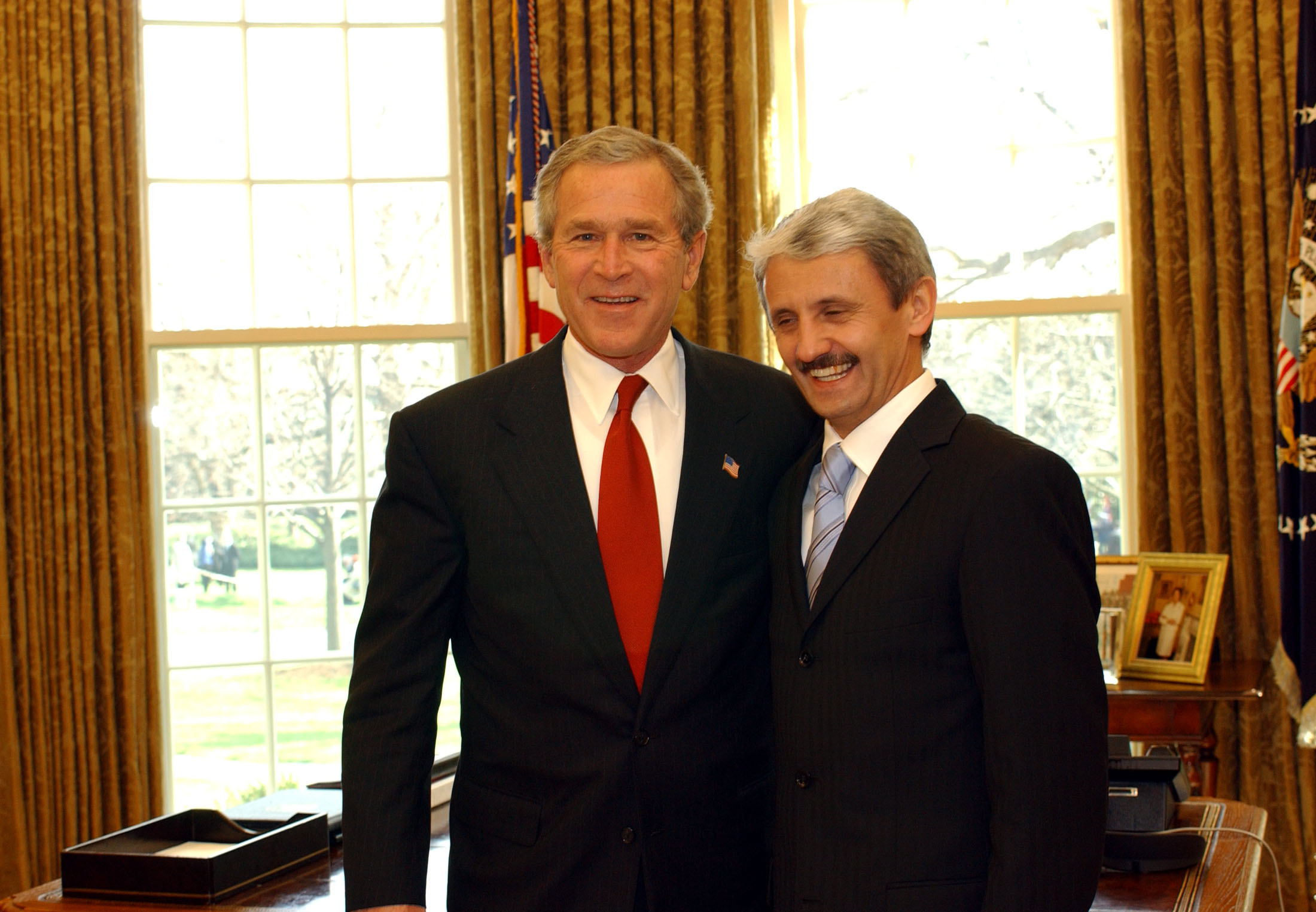 George W. Bush and Mikuláš Dzurinda. The seven new NATO members and the three candidate countries meet US president George W. Bush in Oval Room, the White House.